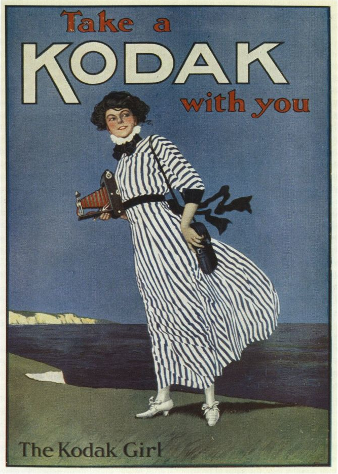 Take a Kodak With You; The Kodak Girl.